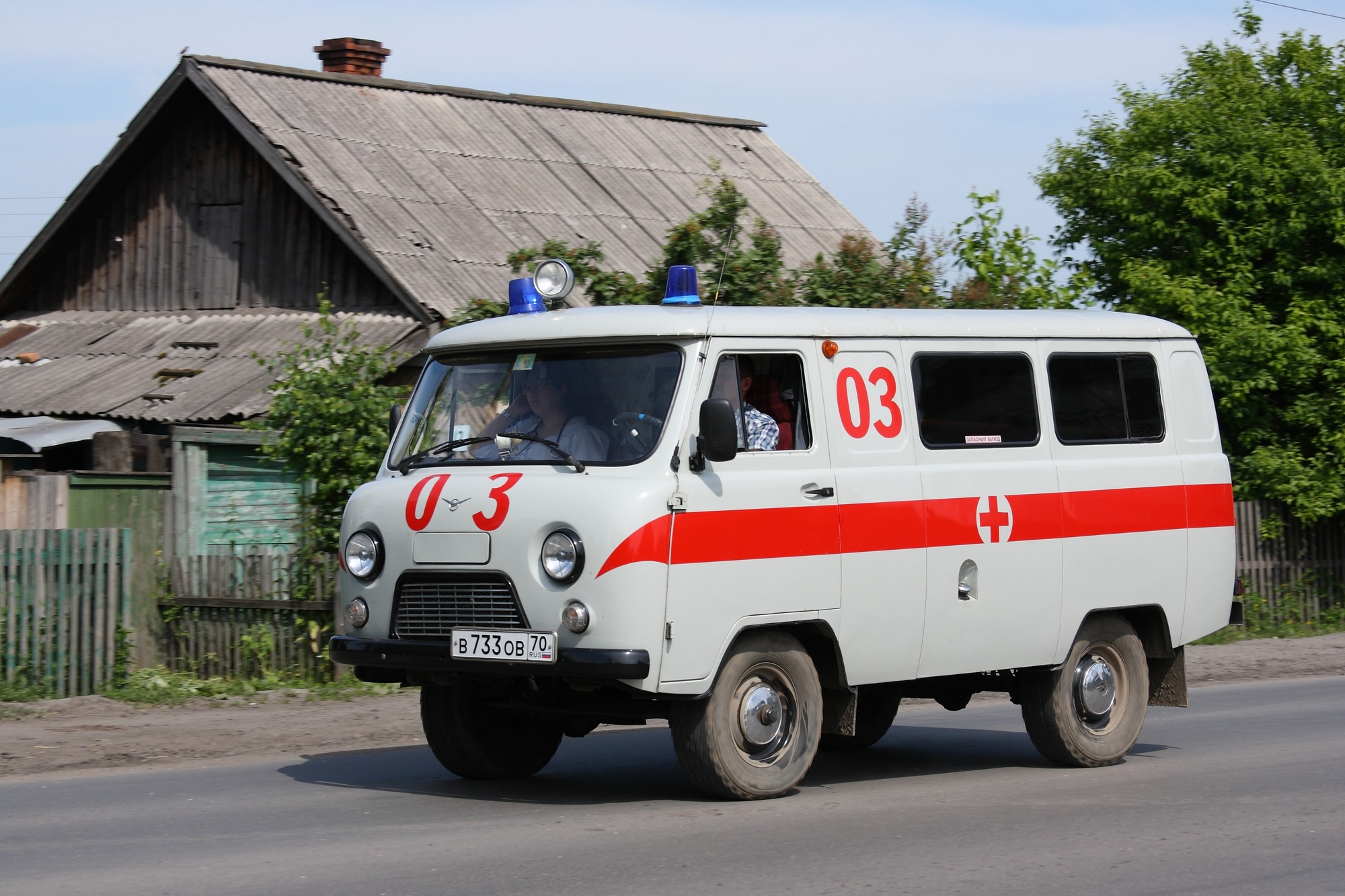 UAZ-3962 ambulance in Asino, Tomsk oblast, Russia